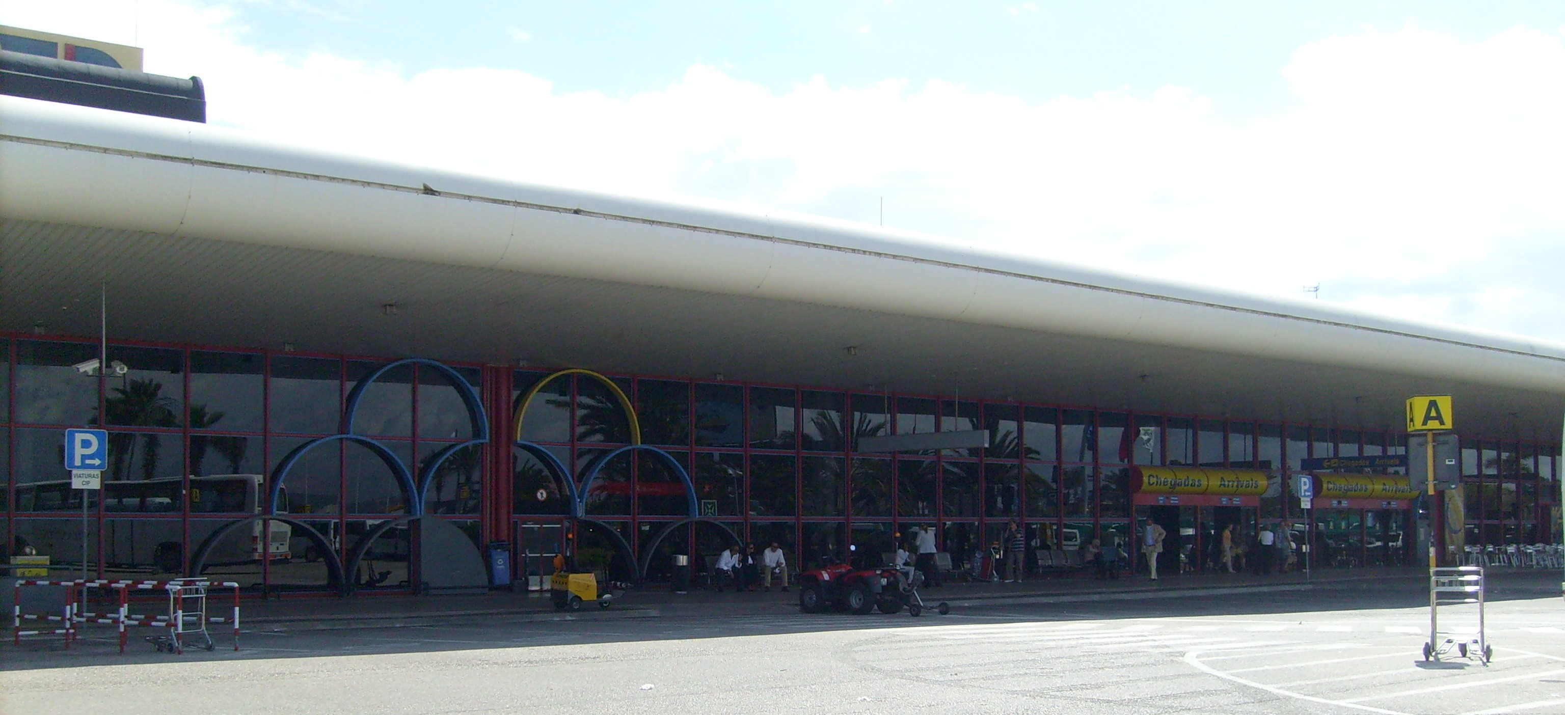 The Faro Airport, Portugal